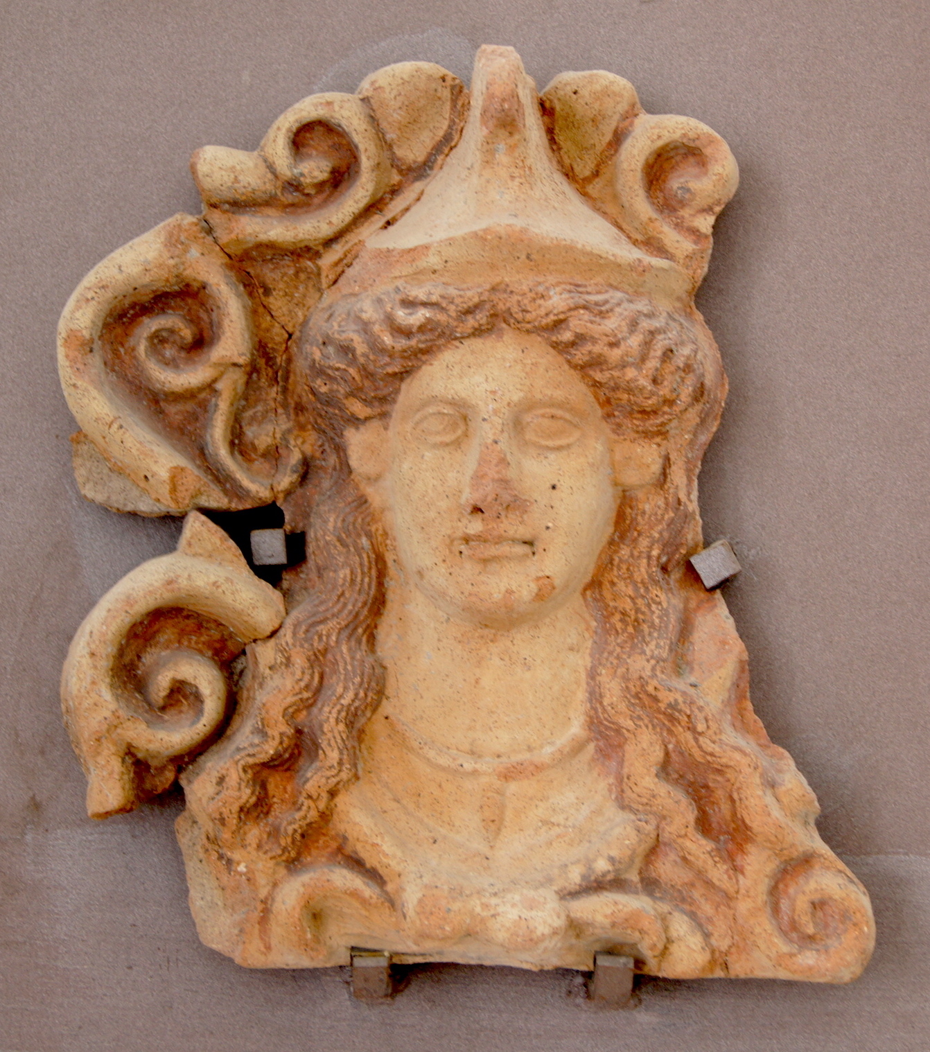 from Cumae in Museo archeologico dei Campi Flegrei